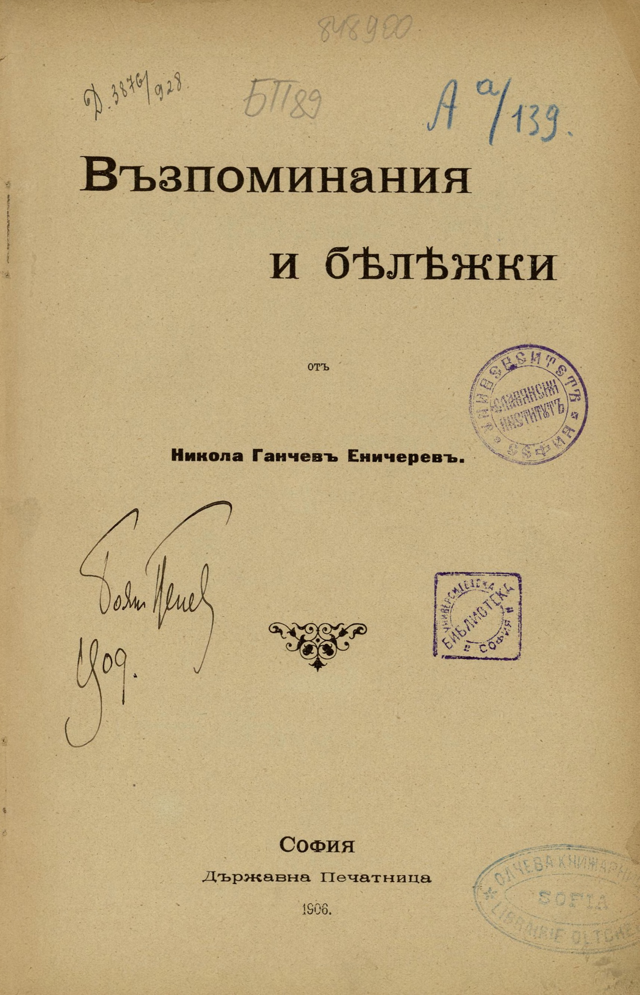 Cover of "memories and notes" from Nikola Enicherev.